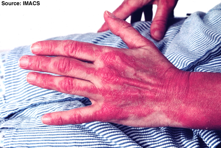 Dermatomyositis, Linear extensor erythema. Confluent erythema of the skin overlying the interphalangeal and extensor tendons of the hand, with extension to the forearm in a patient with dermatomyositis. Note the association with Gottron's sign. This is distinct from cutaneous lupus erythematosus, in which there is absence of erythema over the metacarpal and inter-phalangeal joints. Symmetric confluent macular erythema of the skin overlying the extensor tendon sheaths of the hands, forearms, thighs and/or feet in a patient with dermatomyositis.